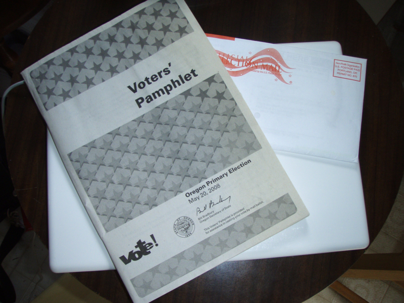 Oregon Voters' Pamphlet, May 2008 Primary election, and ballot return envelope for the vote-by-mail system used in Oregon.